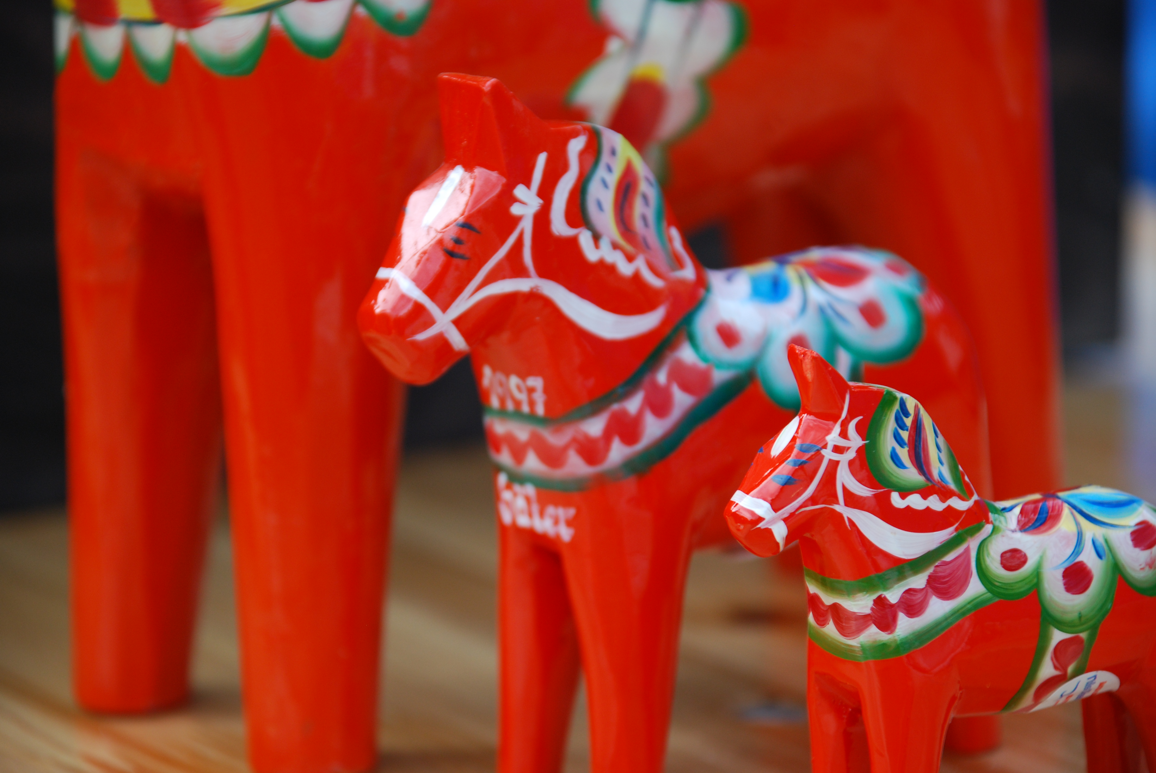 A photograph of three "Dalecarlian horses" in different sizes.